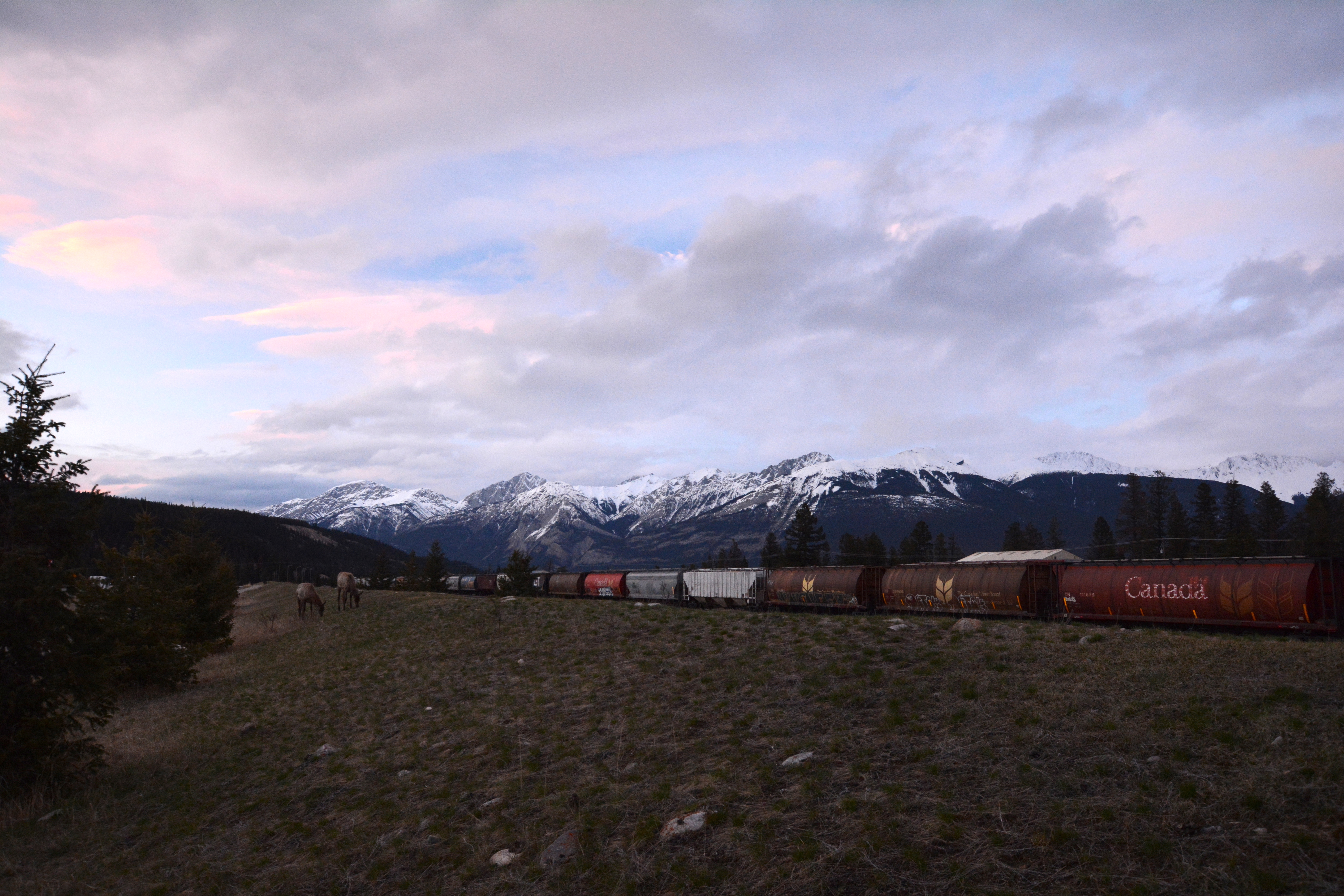 Train and elk in Jasper National Park, Alberta, Canada This photo was taken in a protected area in Canada, Wikidata item Jasper National Park (Q503429)